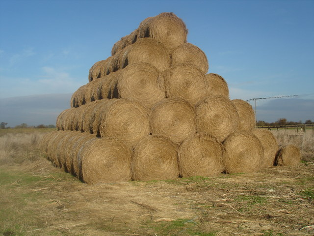 Hay Bales